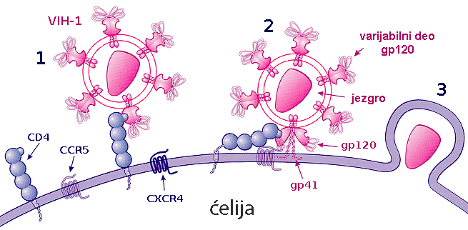 HIV attachment process Legend: Attachment from the gp120 loop to the CD4+ receptor Attachment of a variable from the gp120 to a co-receptor (CCR5 or CXCR4) and fixation of the gp41 to the cellular membrane Invading of a HIV viron into the cell